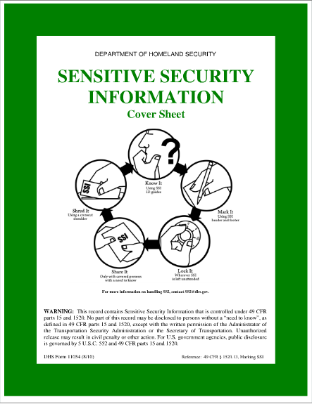 A cover sheet, like those found on Confidential, Secret, and Top Secret documents, but for Sensitive Security Information.